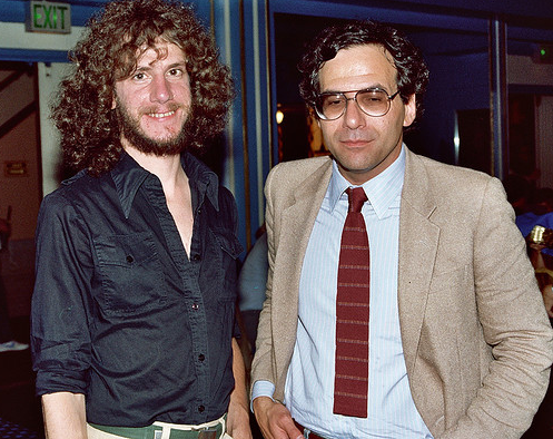 Dean Mullaney (subject of article) and now deceased comics creator Steve Gerber at the 1982 San Diego Comic Con (today called Comic-Con International).